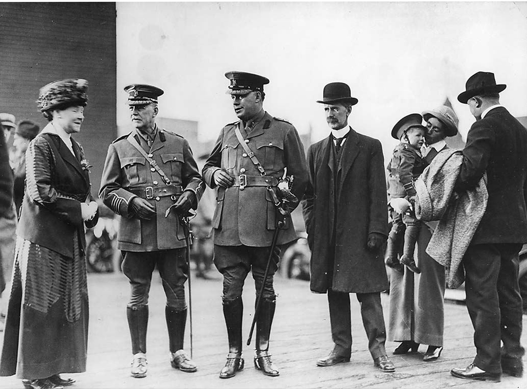 Colonel Sir John Craig Eaton and group. Sir John Eaton (centre) is shown in the uniform of his Eaton Machine Gun Battery (he was their benefactor and was knighted for his involvement) as he sees the battery off to war. His young son, John David Eaton, is in a nurse's arms at the right. (Toronto, Canada)